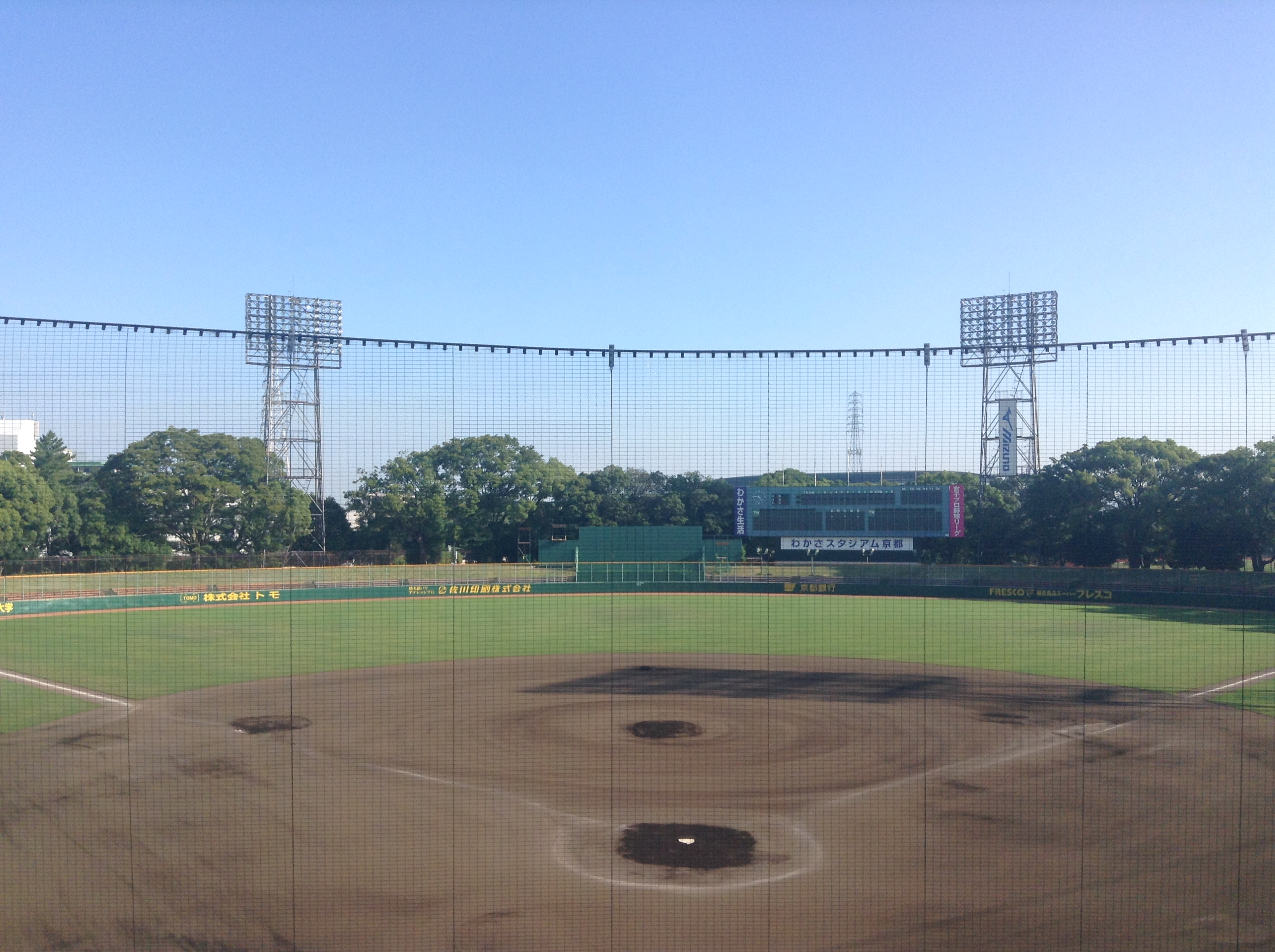 Kyoto Nishikyogoku baseball stadium.